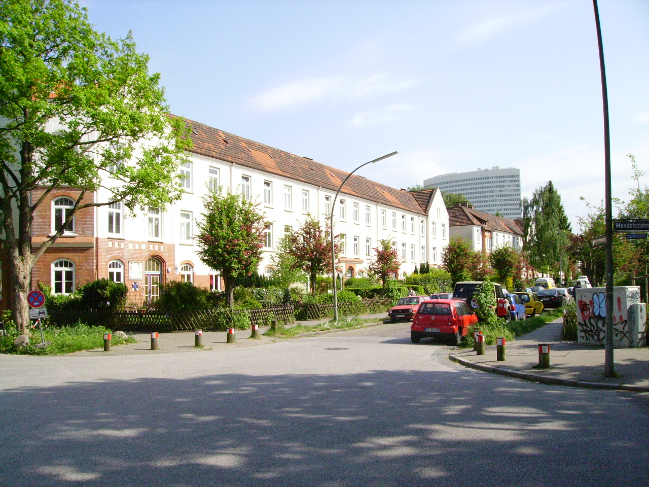 Mendelssohnstr. / Woyrschweg in Bahrenfeld, Hamburg, Germany (in background Hermes insurance agency building)